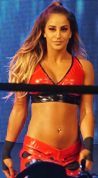 Aliyah during the WrestleMania Axxess in April 2018.